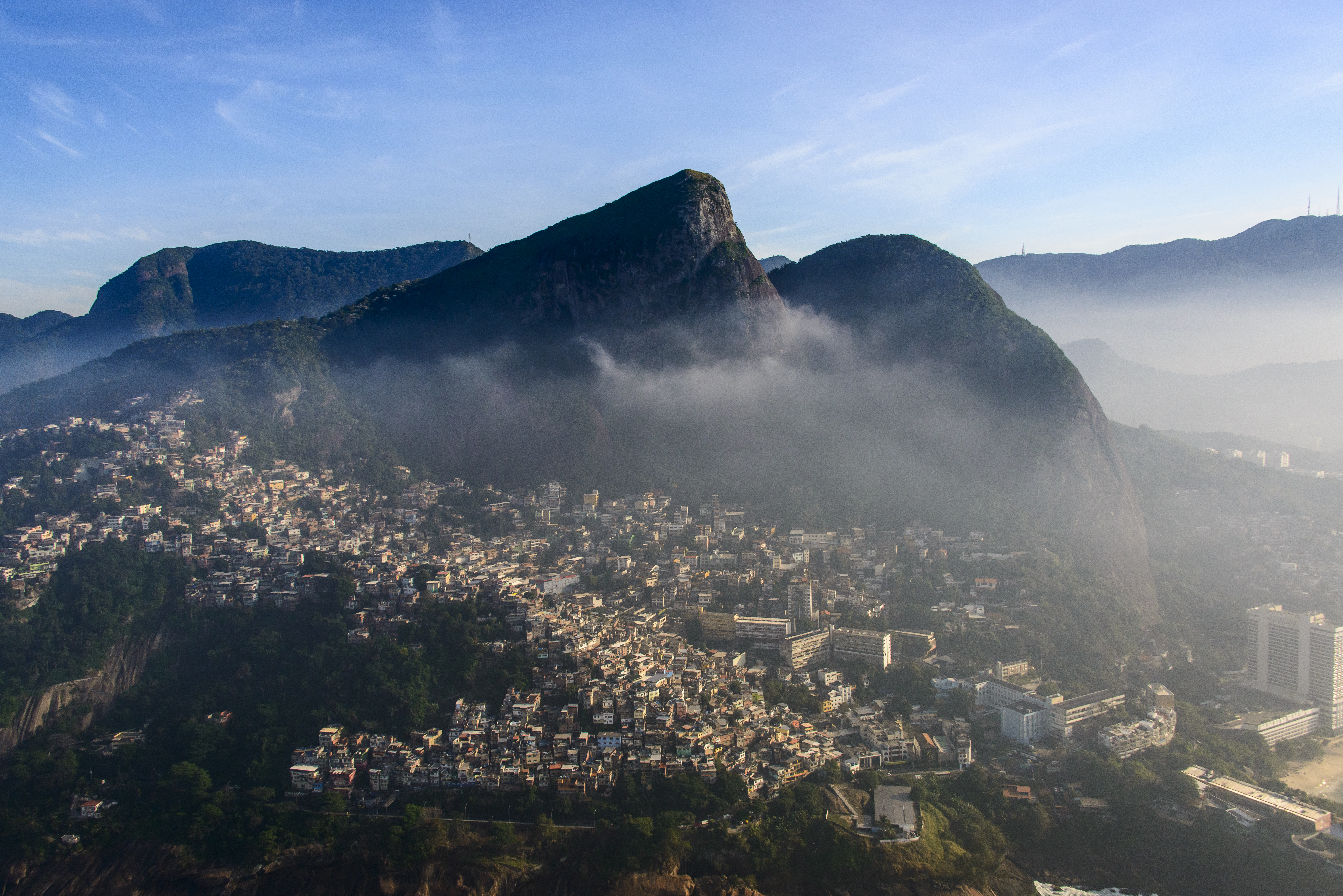 vidigal favela rio de janeiro 2014 aerial